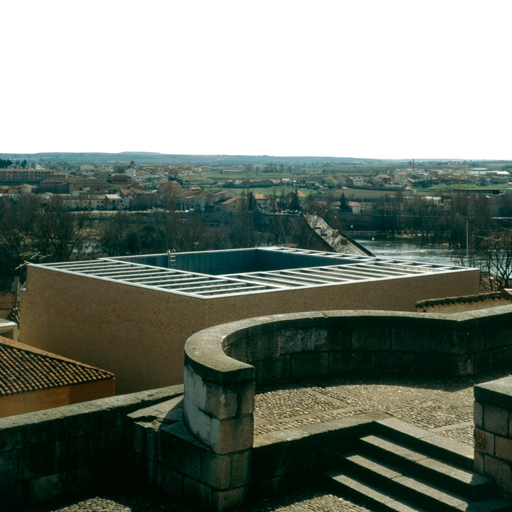 View of the roof of the Museum of Zamora, by Mansilla + Tuñón